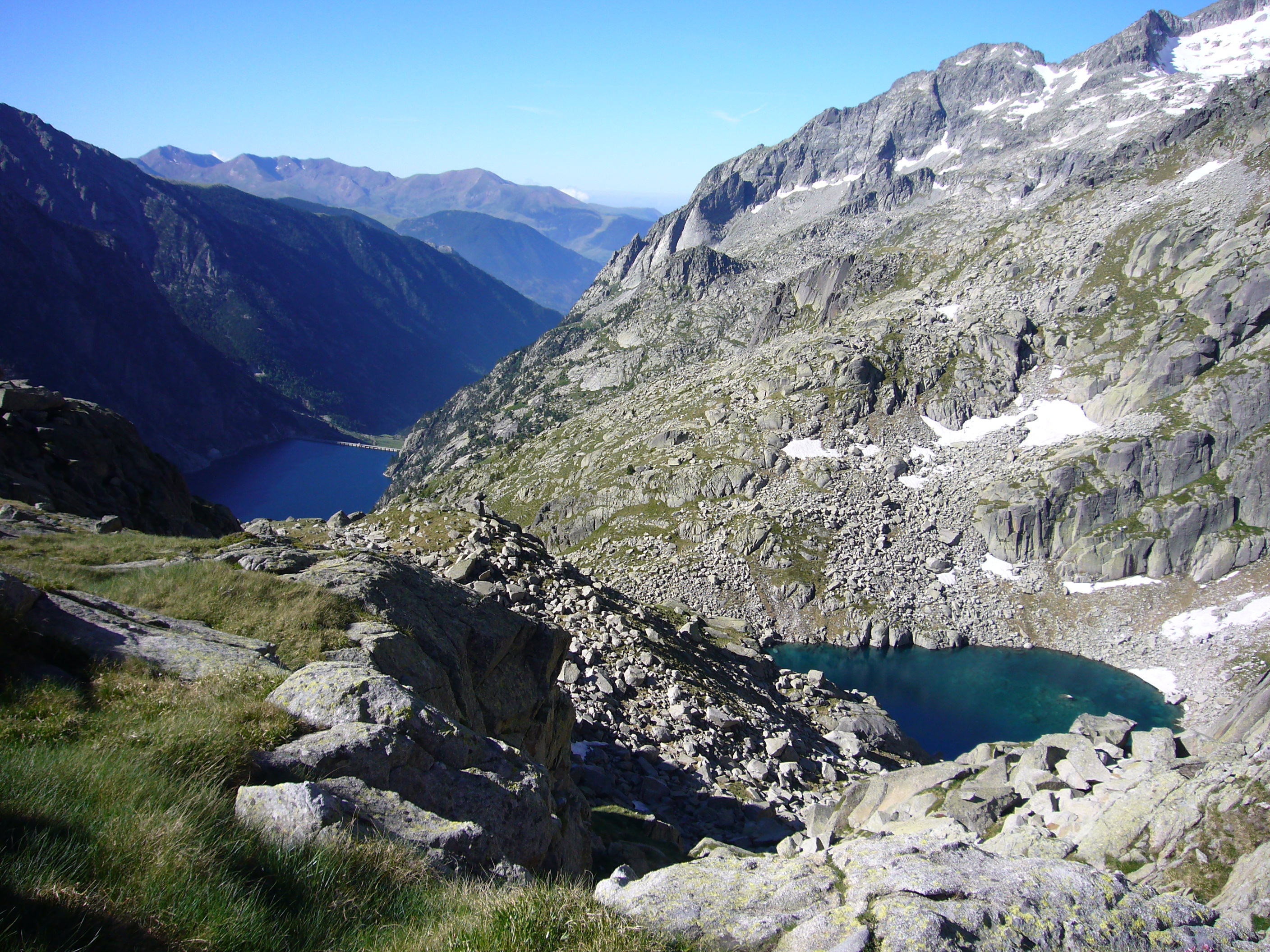 Estany Cloto i Pantà de Cavallers, la Vall de Boí, Alta Ribagorça, Catalonia